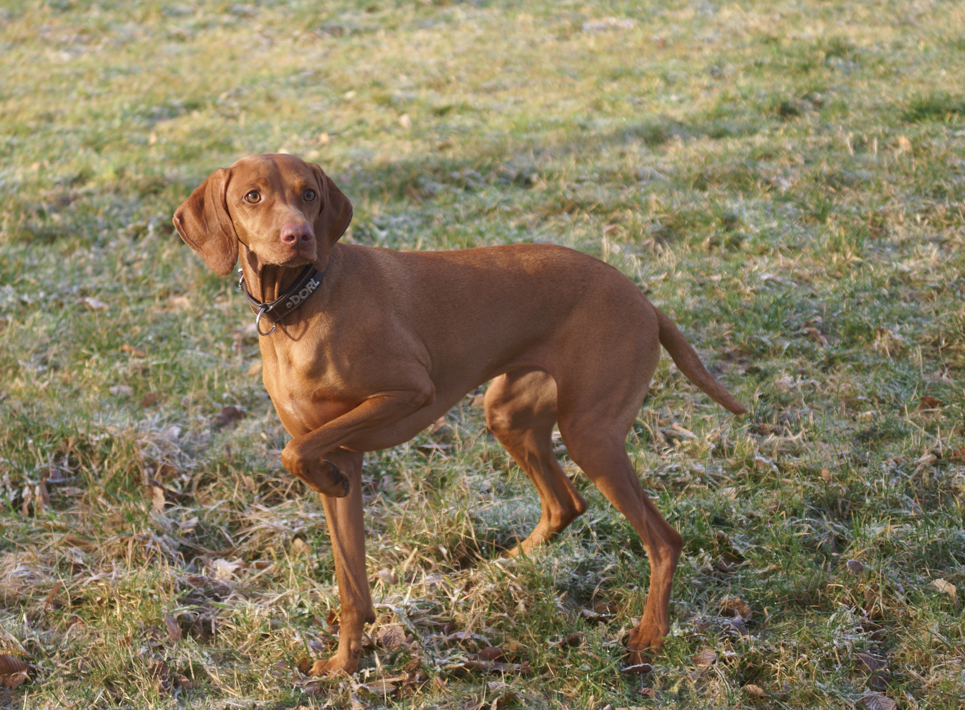 Vizsla